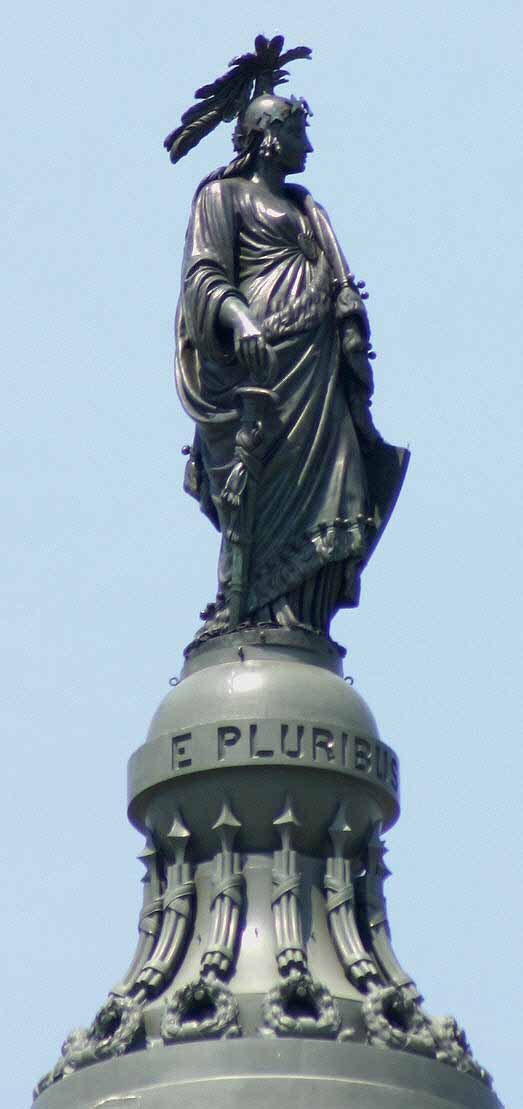 "Freedom" statue Location:Atop the dome of the United States Capitol Building Sculptor:Thomas Crawford Date:1863 Medium:Bronze